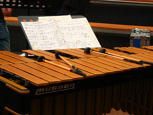 Musser vibraphone (played by Joe Locke at Köln (Germany) June 27, 2007)